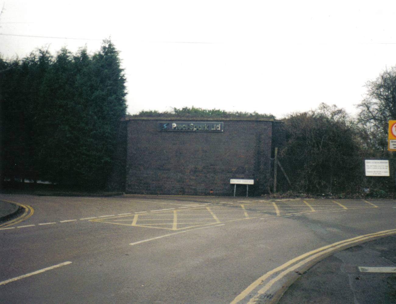 Preci-Spark Ltd sign on the abuttment of an old Great Central Railway bridge in the Loughborough Gap.